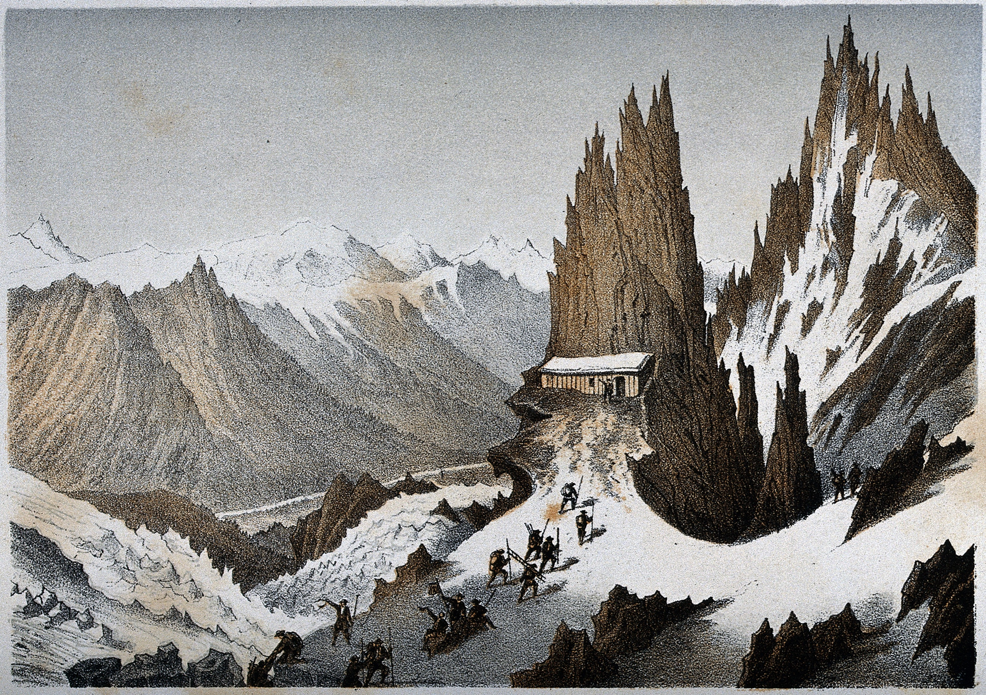 Mont Blanc: Albert Smith's party reaching the cabin on the Grands Mulets, 1853. Colour lithograph by F. Baumann. Iconographic Collections Keywords: Albert Richard Smith; F. Baumann